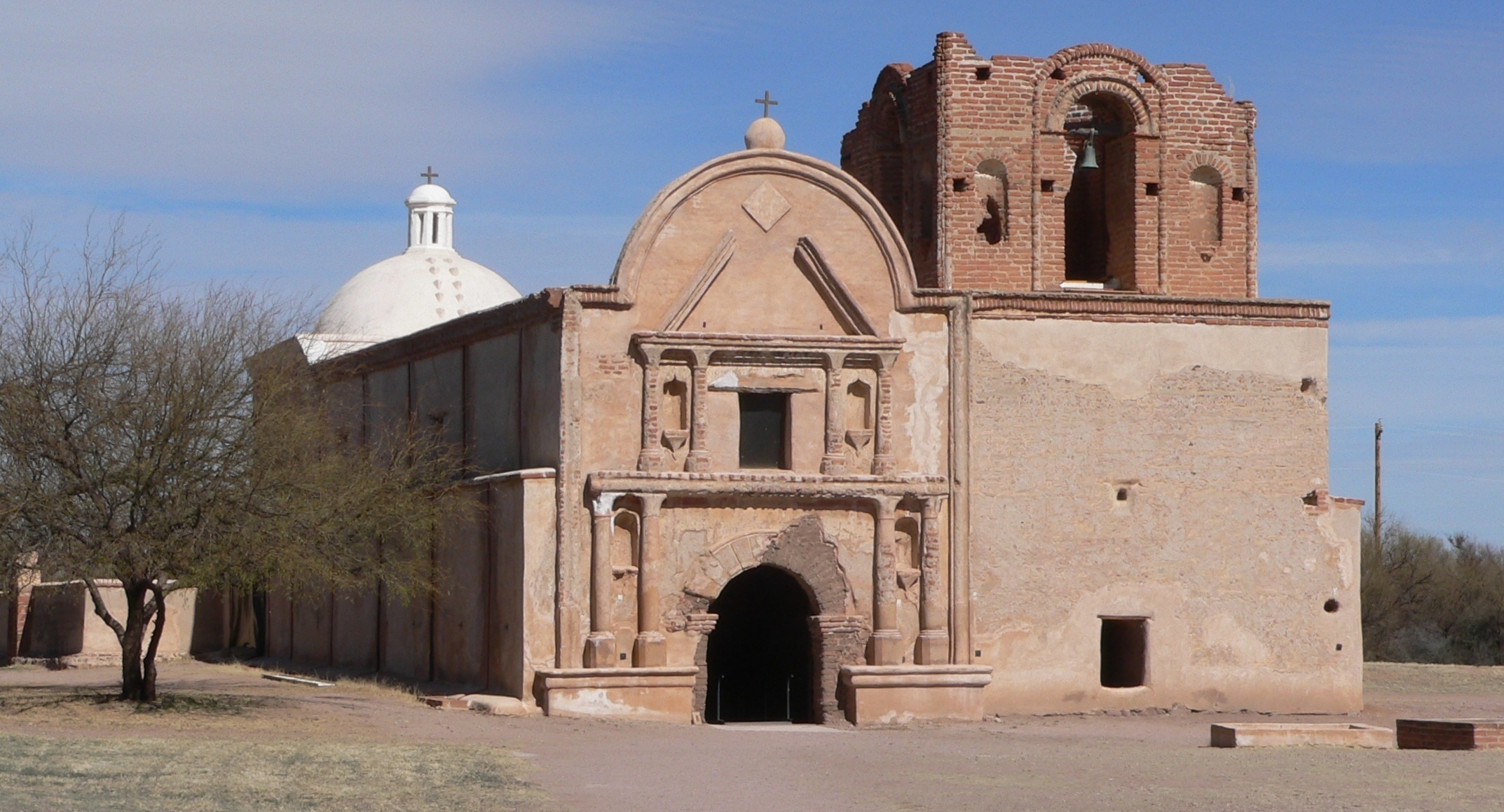 Mission San José de Tumacácori — seen from the south. Within Tumacacori National Monument, in southern Arizona.